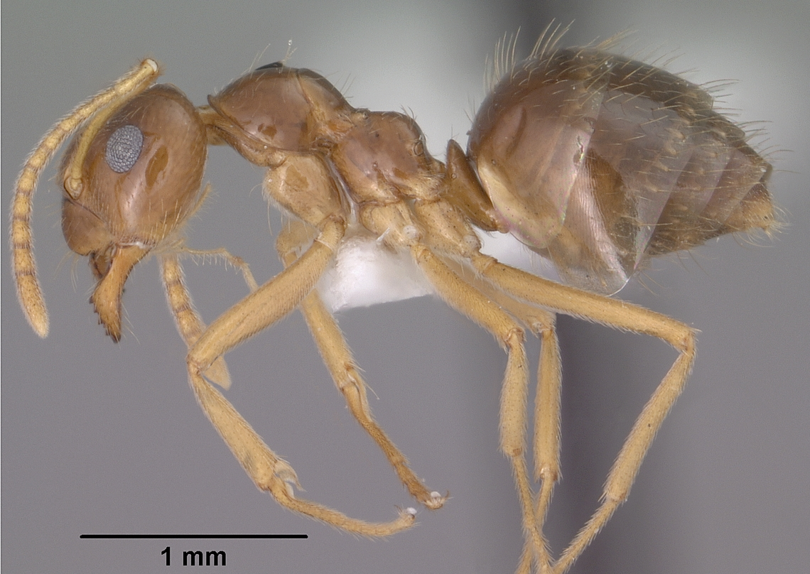 Profile view of ant Prenolepis imparis specimen casent0102823.